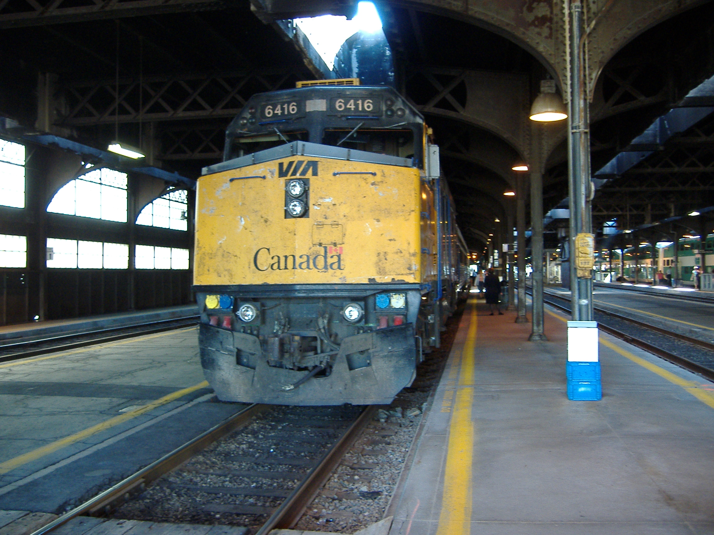 VIA 68 in Union Station